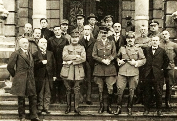 Interallied mission to Poland in Lwów. Meeting with Ukrainian delegation. First row (in centre): gen. Joseph Barthelemy, Col. Adrian Carton de Wiart, Mjr Guiseppe Stabile